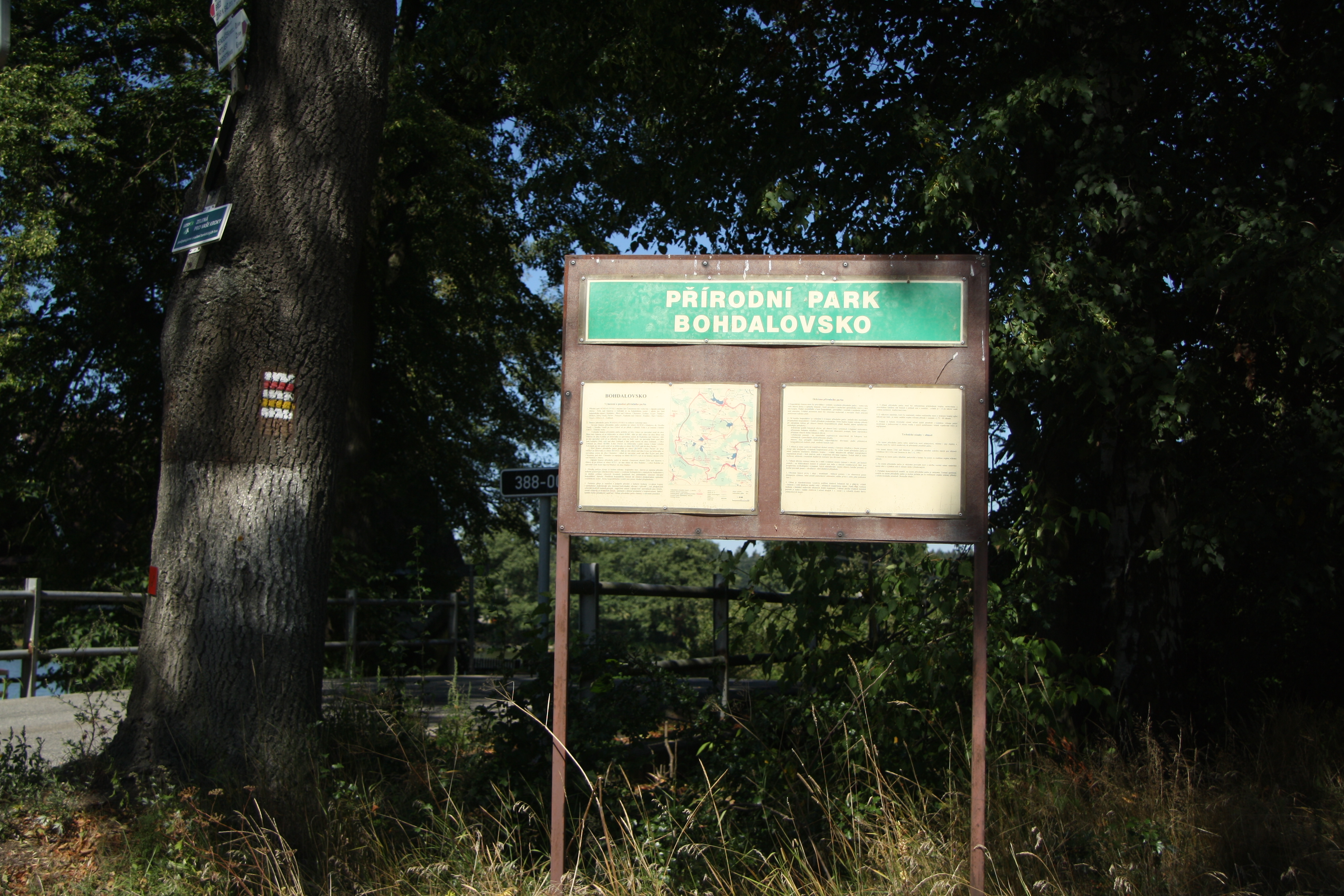 Sign of Přírodní park Bohdalovsko near Rendlíček pond in Březí nad Oslavou, Žďár nad Sázavou District.